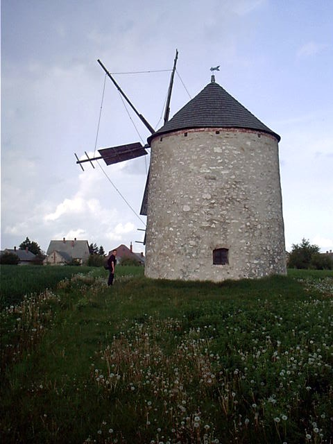 Windmill in Tés This is a photo of a monument in Hungary, Identifier: 10462